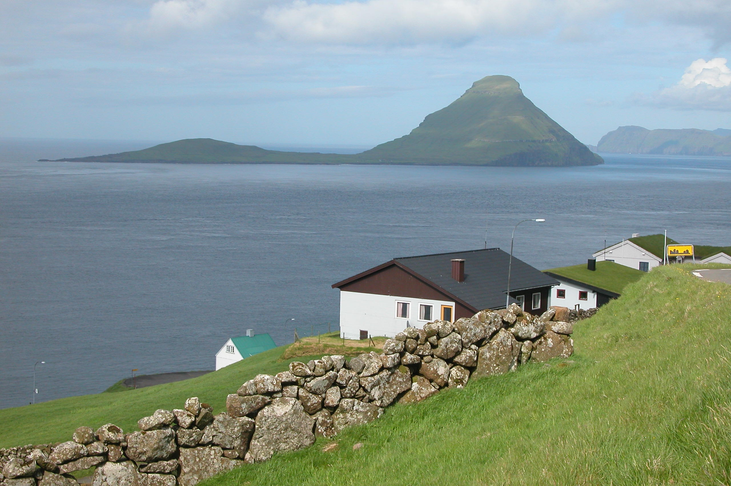 Velbastaður on Streymoy, Faroe Islands. Koltur in the background